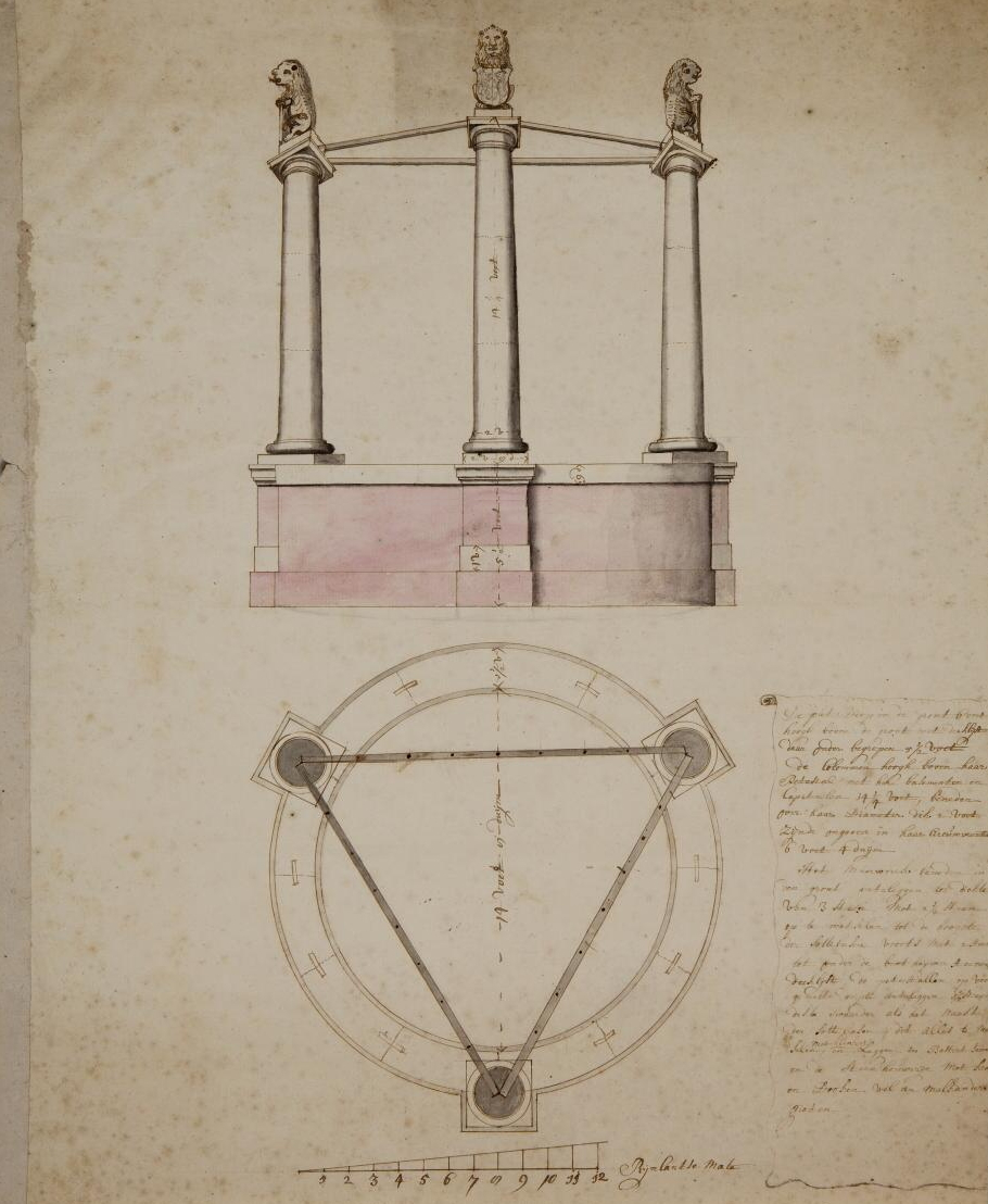 Designplan "De steenen galg" (the stone gallow) near Arnhem, Netherlands